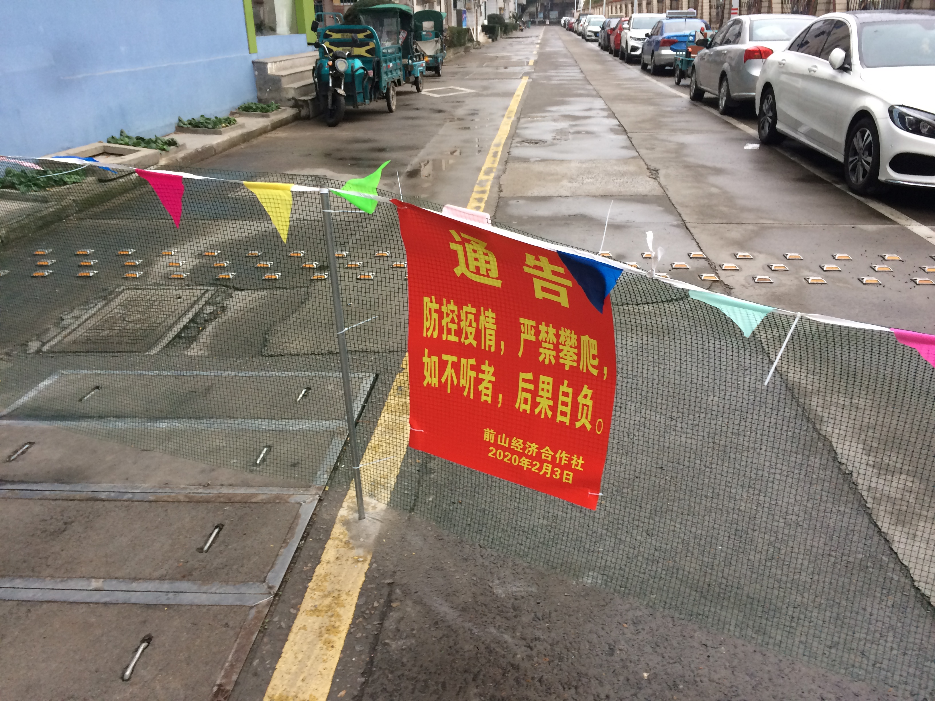 A roadblock in Yuhuan of eastern China's Zhejiang province to contain the 2019-20 Coronavirus outbreak.